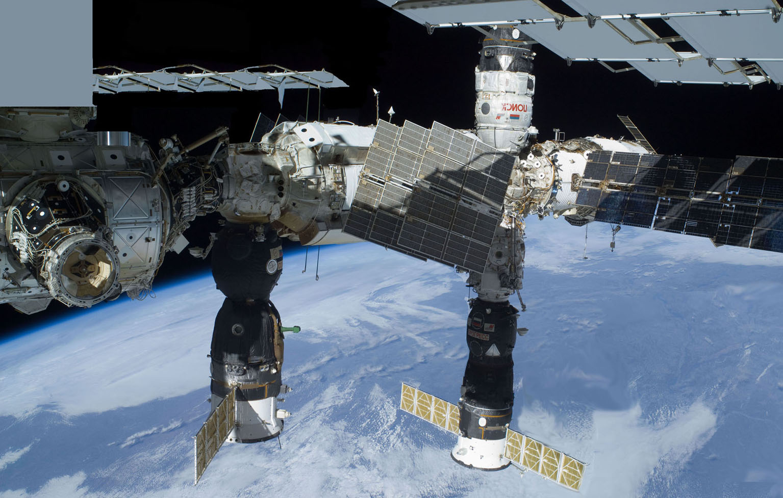 Composite photo of the Russian ISS Segment taken during docked operations with STS-129.